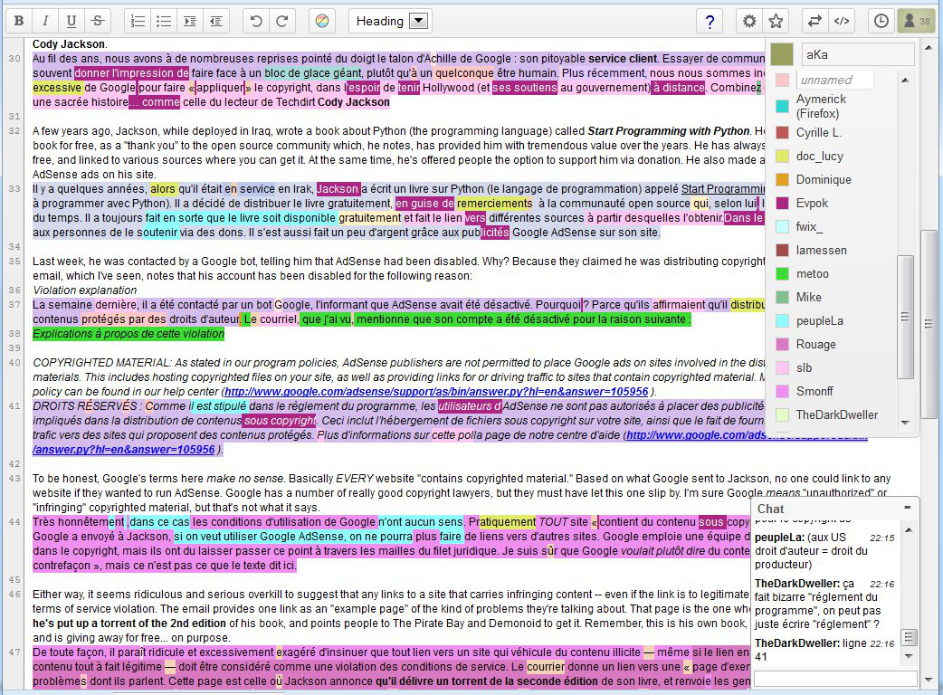 Framapad's screenshot during a collaborative translation. Framapad is a french version of EtherPad by the NPO Framasoft.